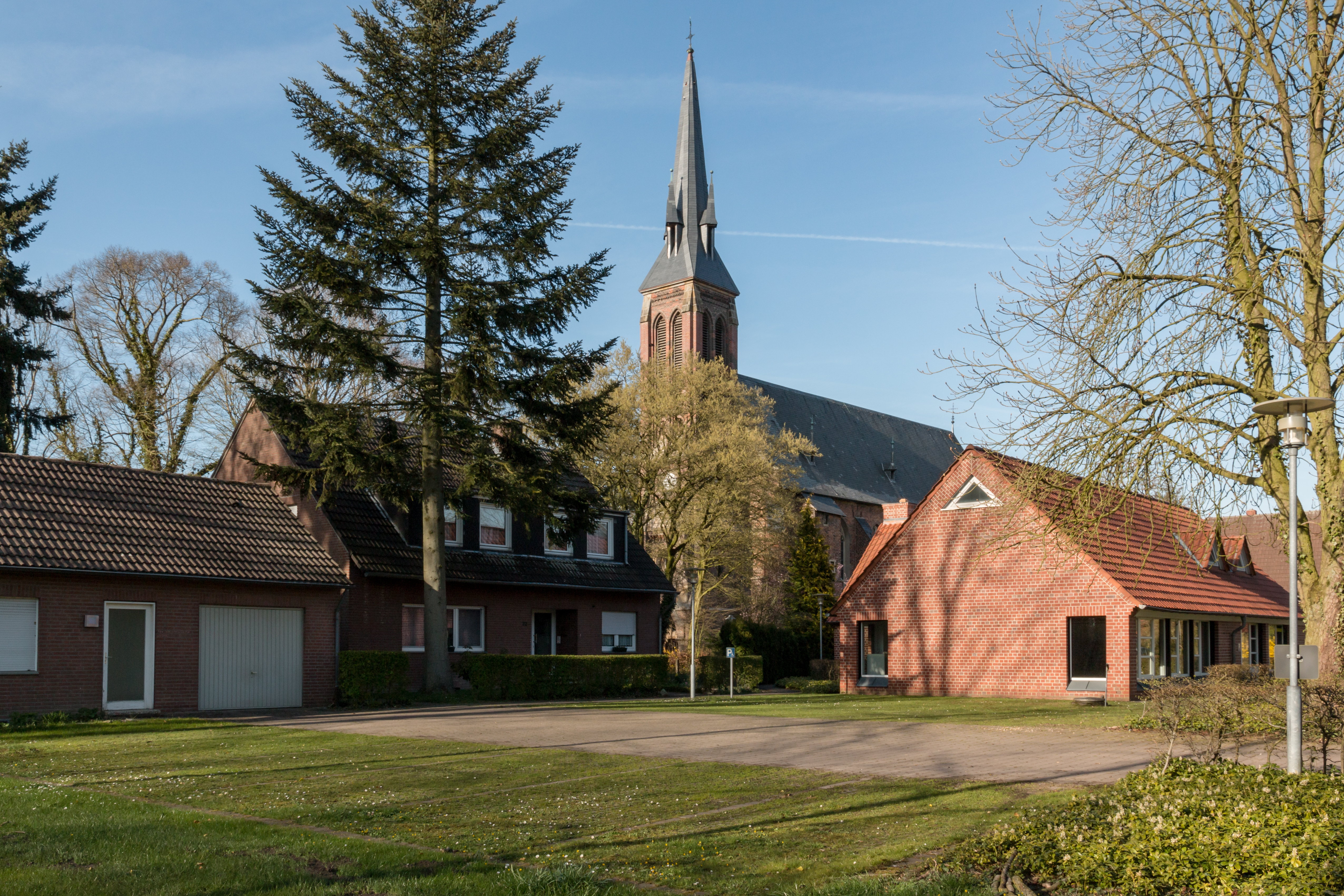 St. Jacob's Church, Kirchspiel, Dülmen, North Rhine-Westphalia, Germany This image shows a heritage building in Germany, located in the North Rhine-Westphalian city Dülmen (no. 22).